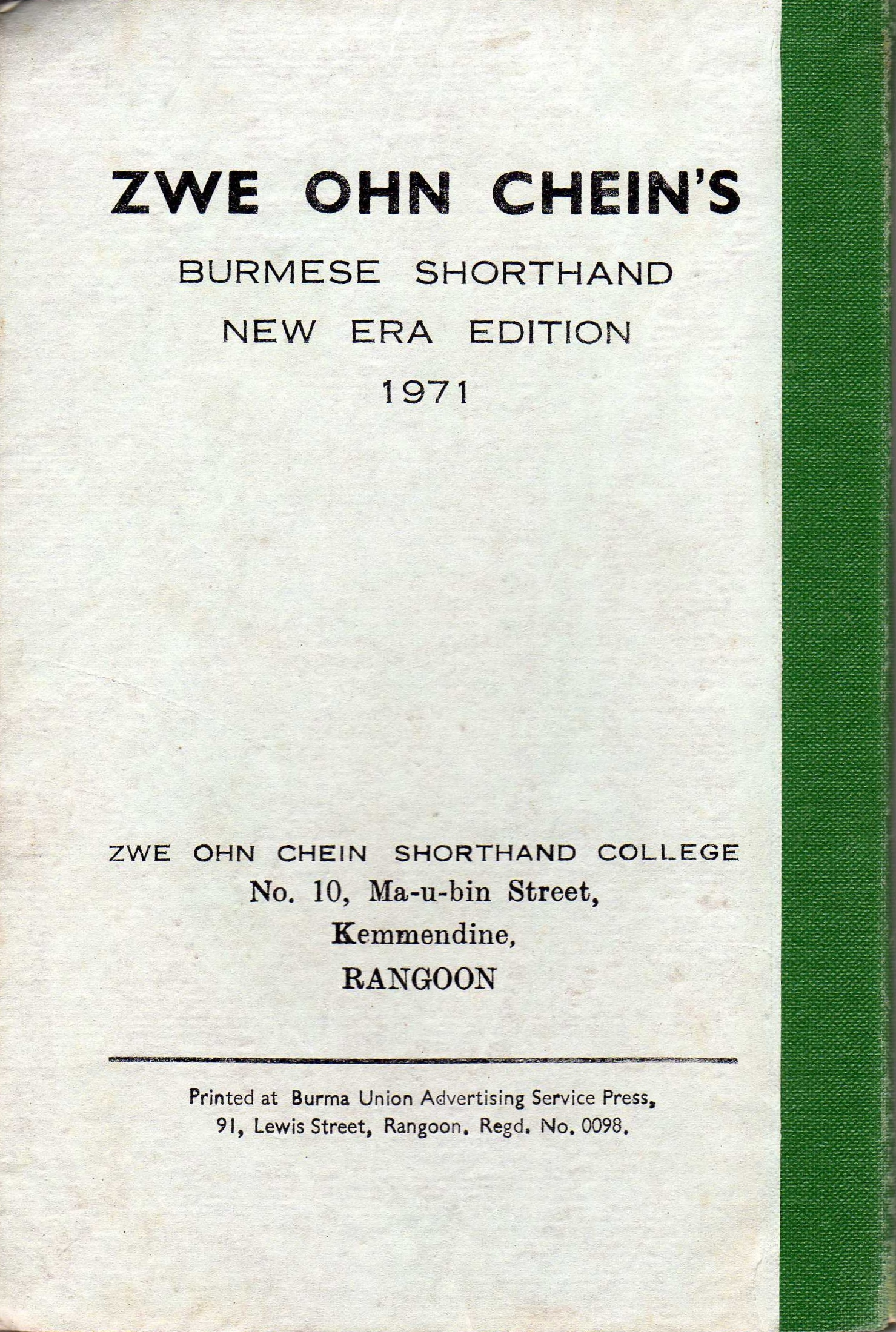 Zwe Ohn Chein's Burmese Shorthand Text Book Sixth Edition 1971